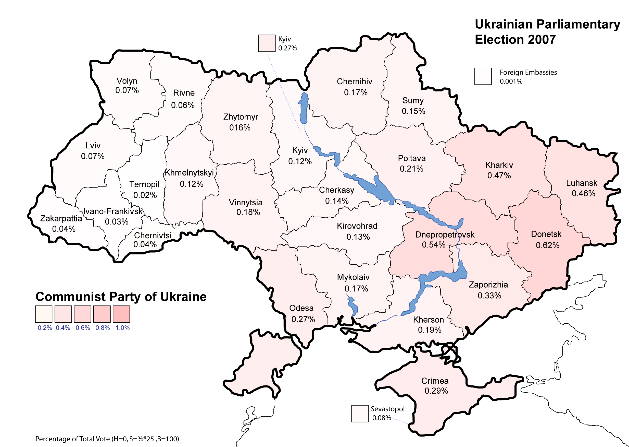 A graphical representation of the 2007 Ukrainian Parliamentary Election: Communist Party of Ukraine results (5.39%), one of the maps showing the top six parties support - percentage of total national vote